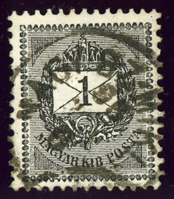 Kingdom of Hungary, 1 kr issue 1888, cancelled at NAGY SZ-MIKLOS in1895, Banat, Romania.